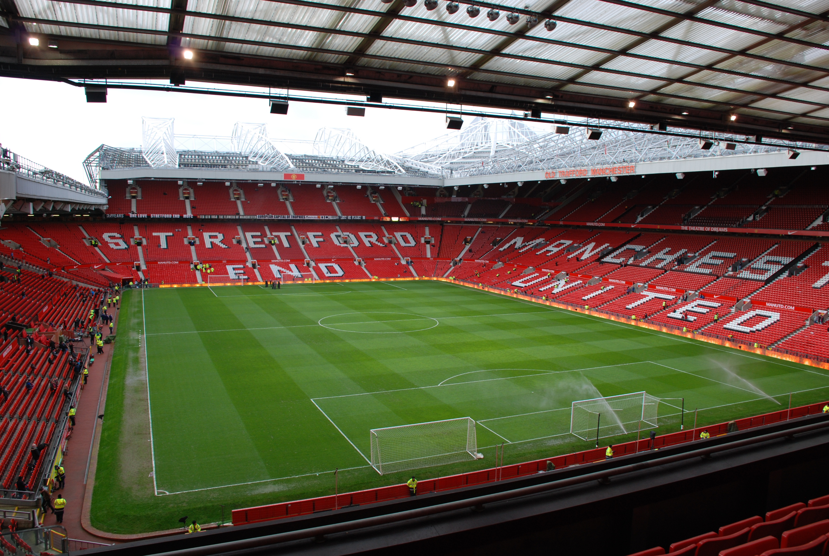 View of Old Trafford from East Stand